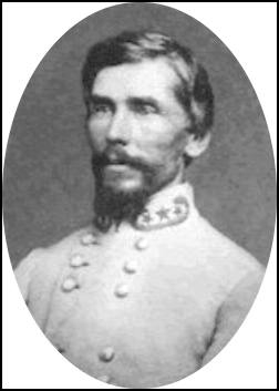 Patrick Ronayne Cleburne